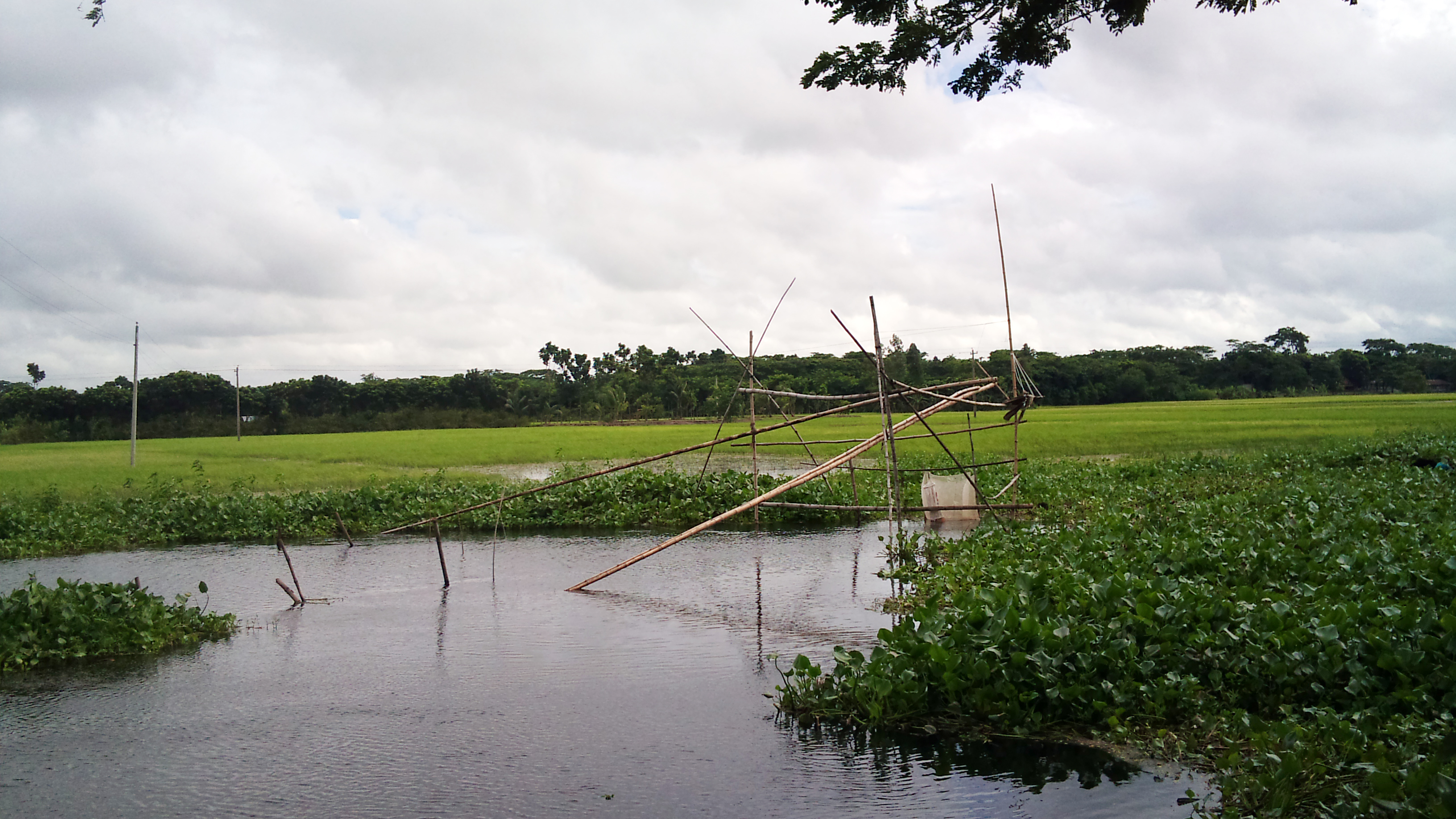 I captured this photo by my cell phone a long time ago in my own village nearest of Gopalganj city...